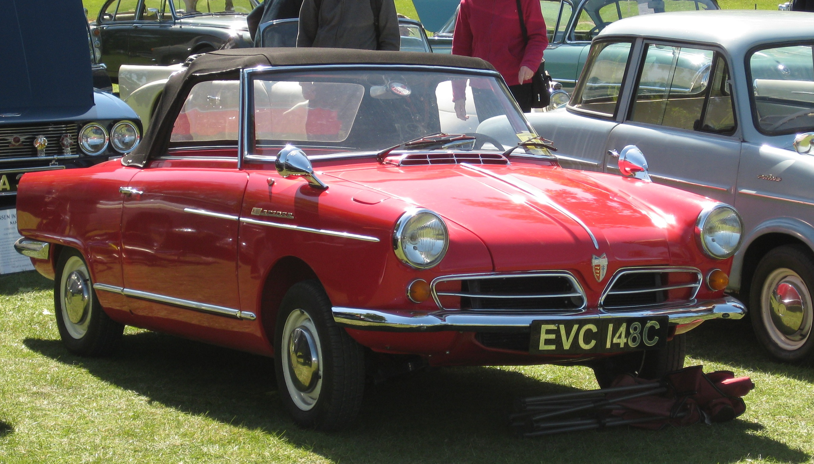 NSU Spider at Woburn